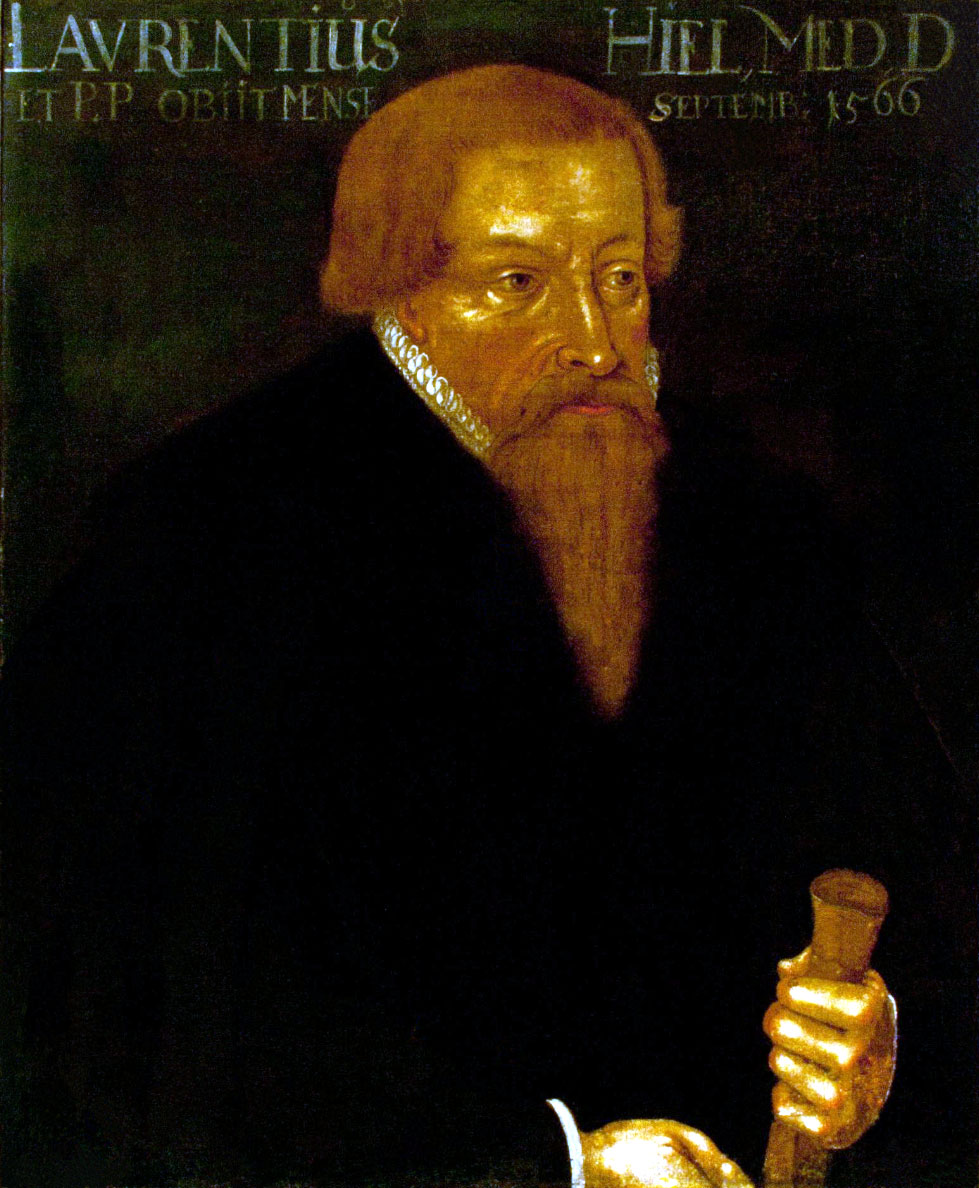 Lorenz Hiel (1532-1566) German physicians